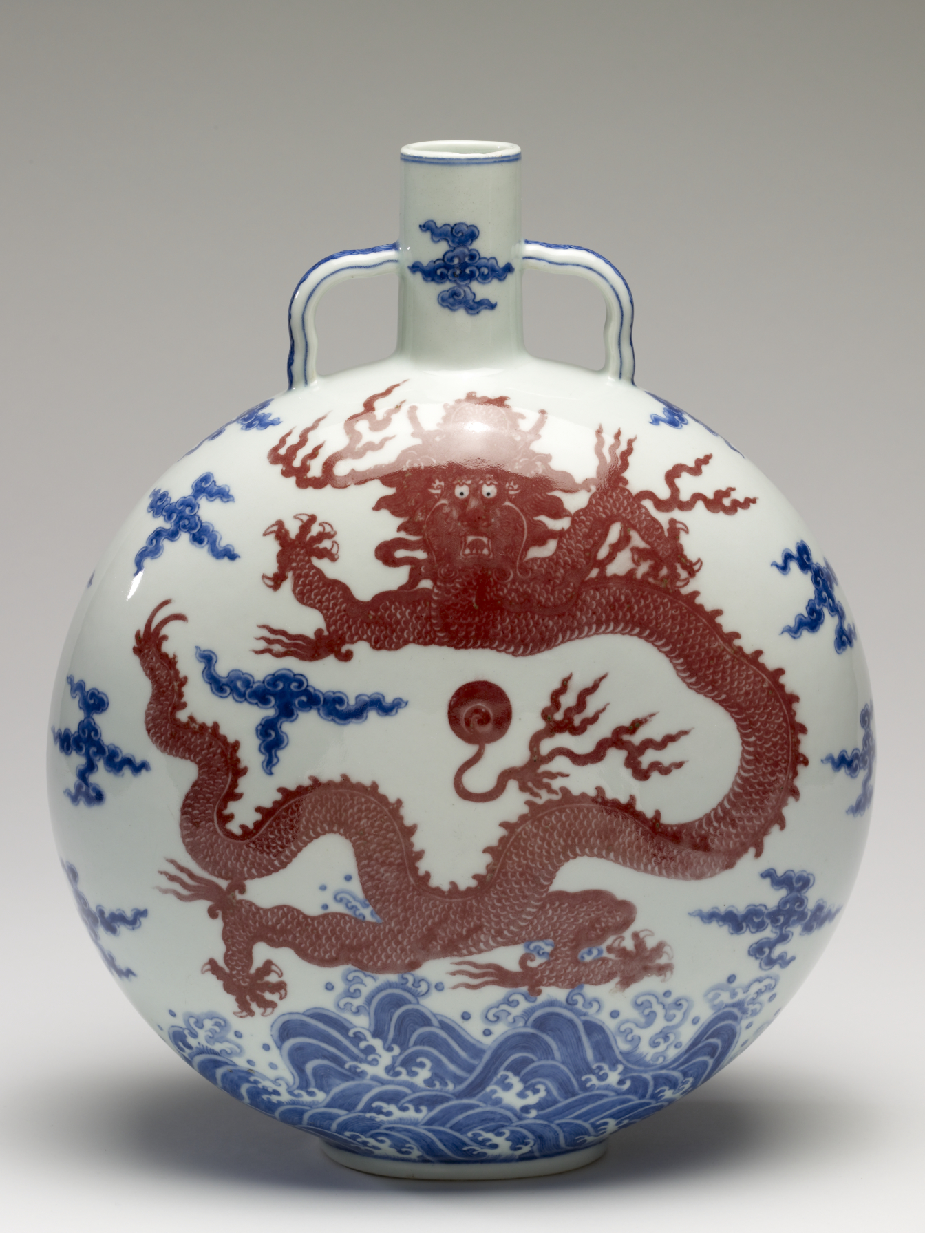 "This moonflask of white porcelain is painted with underglaze blue and red designs. A five-clawed red dragon is depicted on either side, facing forward with its body coiled to protect a flaming pearl at the center. Flames issue from the scaly serpentine body of the dragon. In blue are painted the foaming crested waves along the bottom and scrolling clouds scattered across the sky. The flask is round in form, thus giving it the name full moon flask. Two thin handles are attached at the shoulders and rise to meet the straight narrow neck. The careful control of the cobalt (blue) and iron (red) pigments mark this vase as something rare and special. It was made at the imperial kilns in the city of Jingdezhen for the court in Beijing where it would have served as decoration for one of the many palace rooms in the Forbidden City. The Qianlong emperor who reigned from 1736 to 1796 was a great patron of the arts, commissioning and supporting production of vast numbers of exquisite works of art. This piece is marked as having been made during his reign and it is undoubtedly among the finest porcelains to emerge from the Chinese kilns."